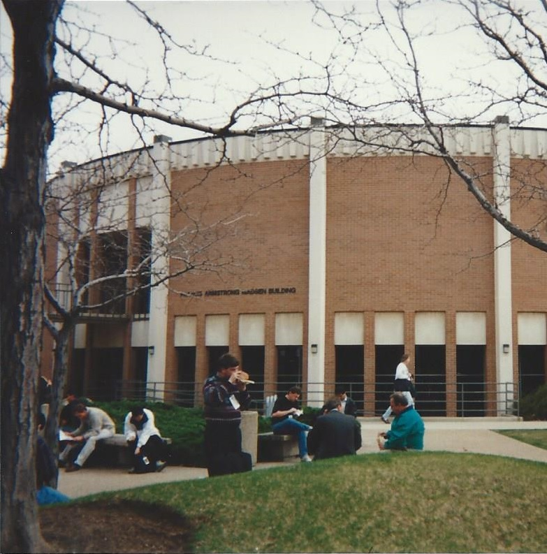 Attendees at the Novell BrainShare '95 conference sitting outside the Francis Armstrong Madsen Building in the David Eccles School of Business portion of the campus of the University of Utah. The building was the site of technical sessions that were held as part of the conference.